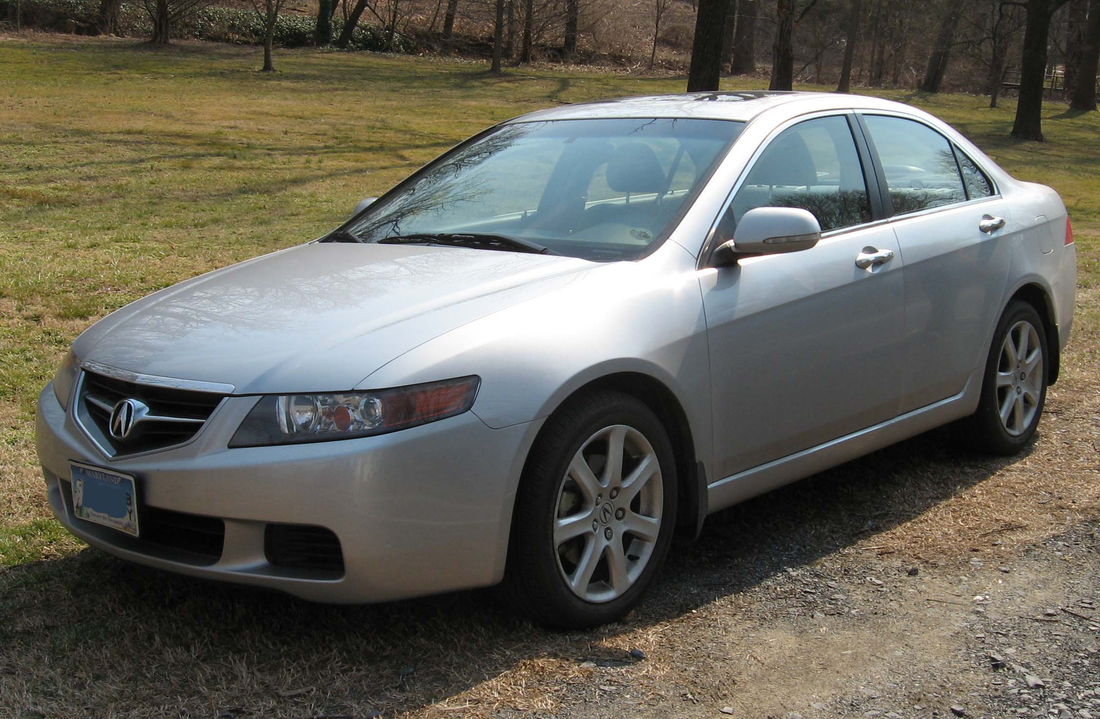 2004-2005 Acura TSX photographed in USA.